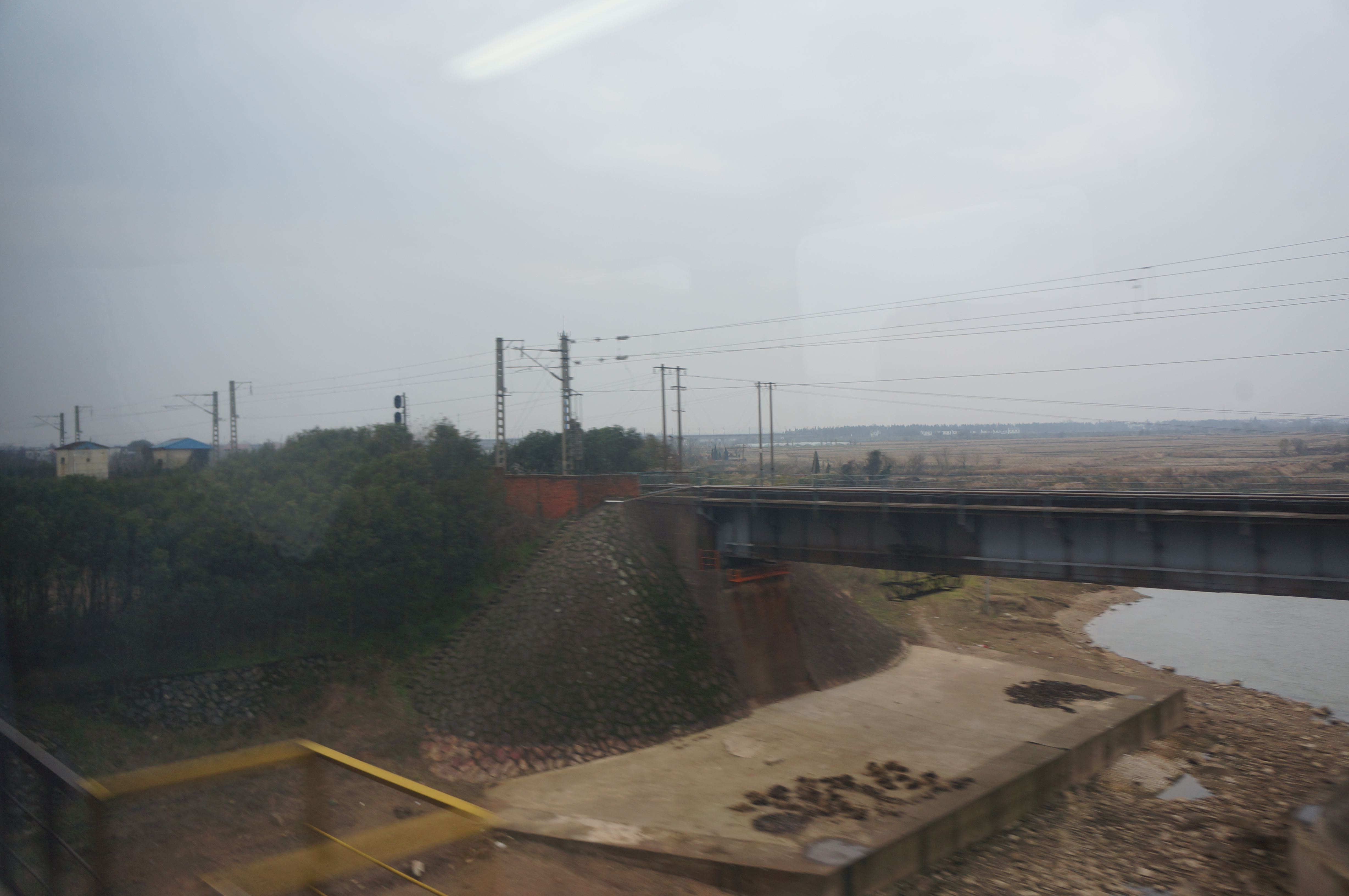 201612 Xiangtang–Liangjiadu Railway over River Fu